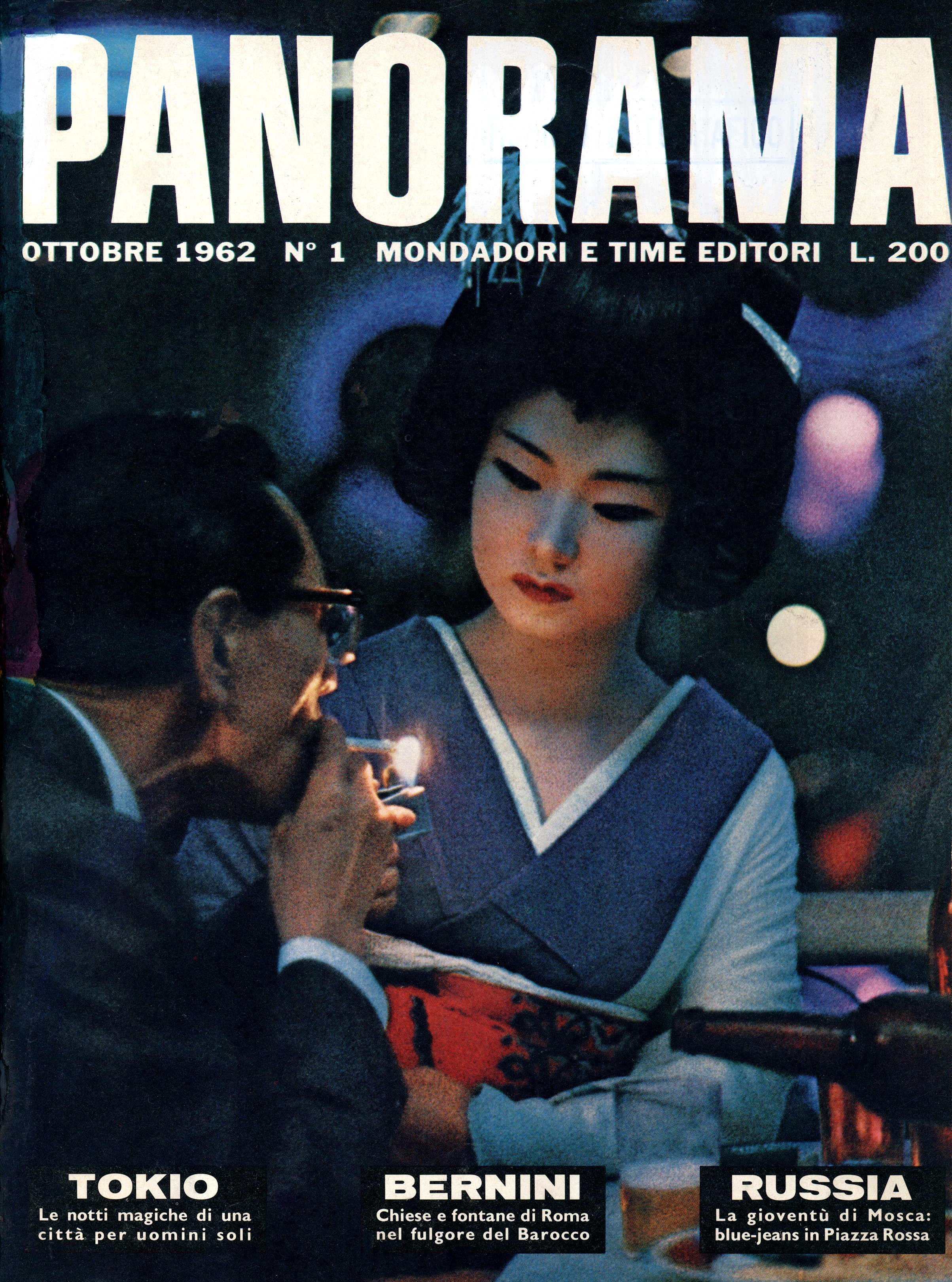 Panorama is the first newsmagazine published by Mondadori in Italy, in 1962.